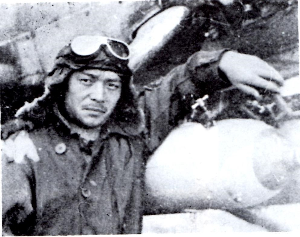 空母「蒼龍」時代（1938年）の遠藤